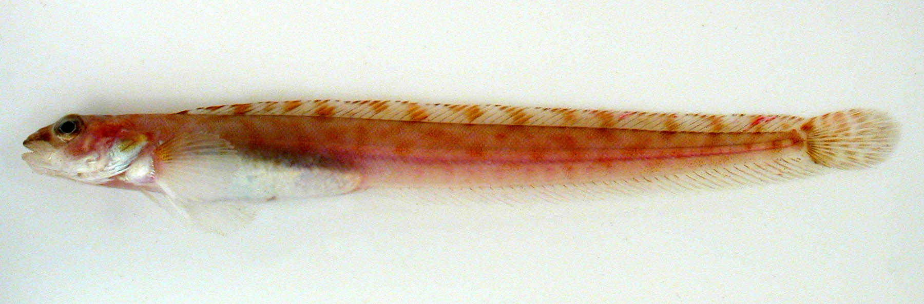 Stout Eelblenny (Anisarchus medius)